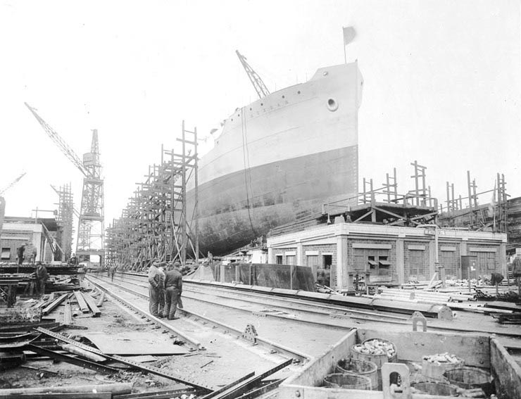 S.S. Hoxbar (American Tanker, 1919) ready for launching at the Bethlehem Shipbuilding Company shipyard, Sparrows Point, Maryland, on 15 February 1919. This ship was turned over to the Navy on completion and placed in commission on 13 June 1919 as USS Hoxbar (ID # 4341). She was decommissioned on 28 August 1919 and returned to the U.S. Shipping Board.